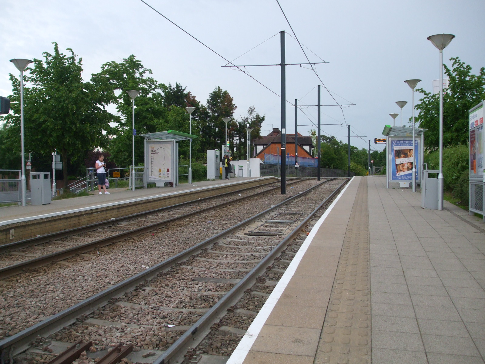 Sandilands tram stop looking west